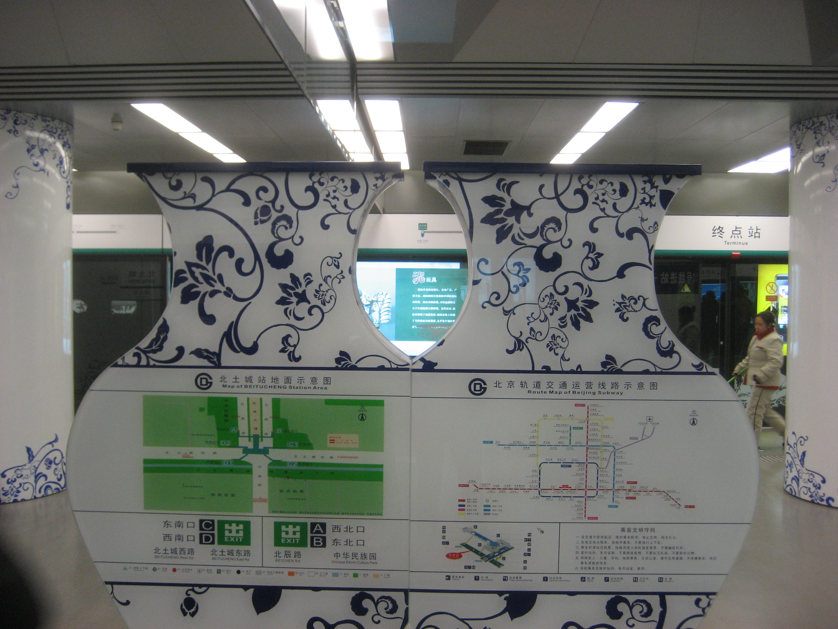 Line 8,Beijing Subway.BEITUCHENG Station. Board like ceramics.